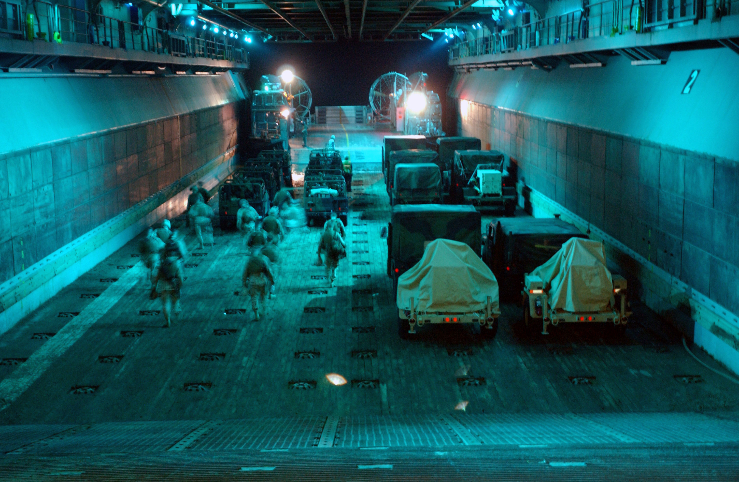 Northern Arabian Gulf (Mar. 24, 2004) – U.S. Marines assigned to the 22nd Marine Expeditionary Unit (Special Operations Capable) load onto an Landing Craft Air Cushion (LCAC) assigned to Assault Craft Unit Four (ACU 4). The Marines are conducting offload operations aboard the amphibious assault ship USS Wasp (LHD 1). Wasp and her embarked 22nd Marine Expeditionary Unit (Special Operations Capable) are currently on deployment in the 5th Fleet Area of Responsibility (AOR) as the lead ship for Expeditionary Strike Group Two (ESG 2). U.S. Navy photo by Photographer's Mate 1st Class Bart Bauer. (RELEASED)